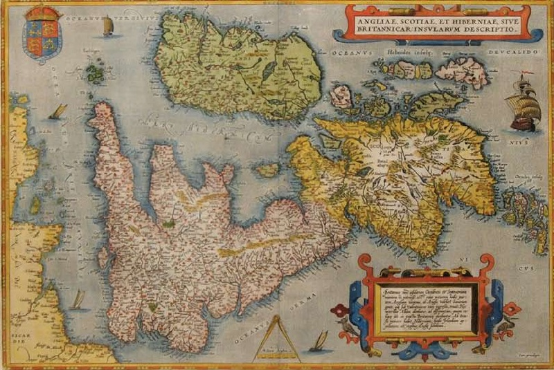 Abraham Ortelius copy of a 1564 map of Gerardus Mercator for the Orbis Terrarum